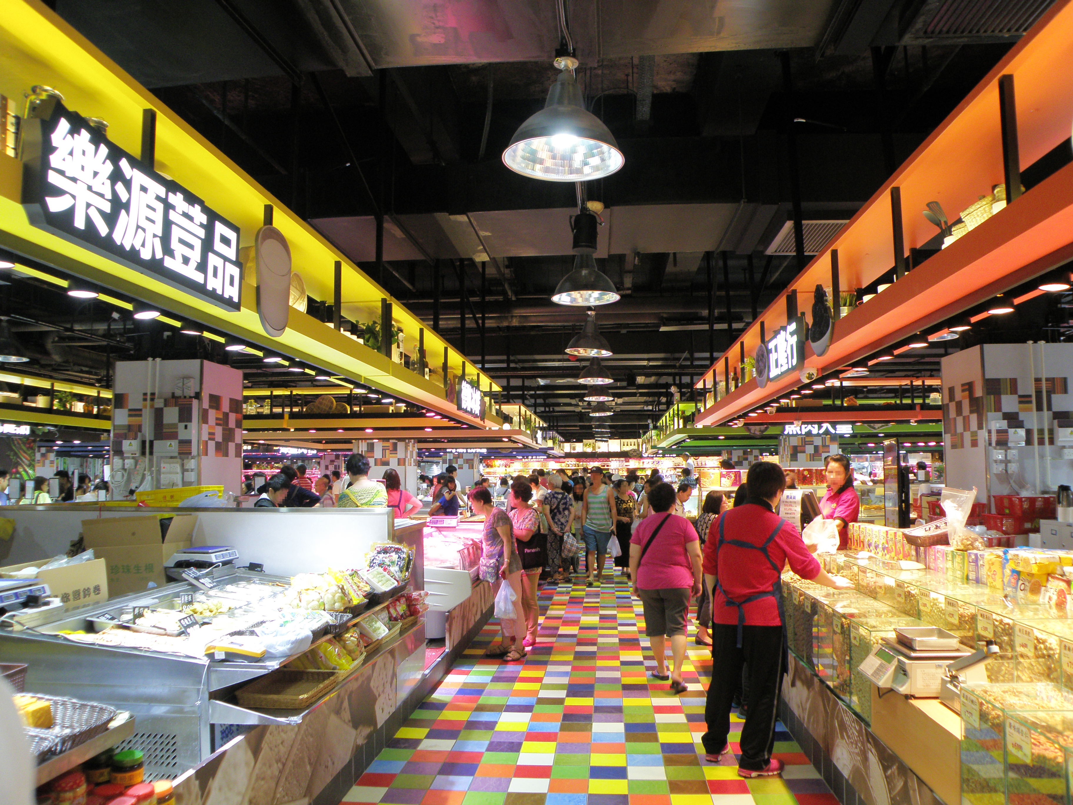 Market in Siu Sai Wan, Hong Kong.